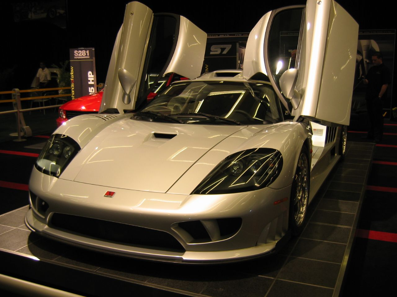 Saleen S7 at the 2006 LA Auto Show